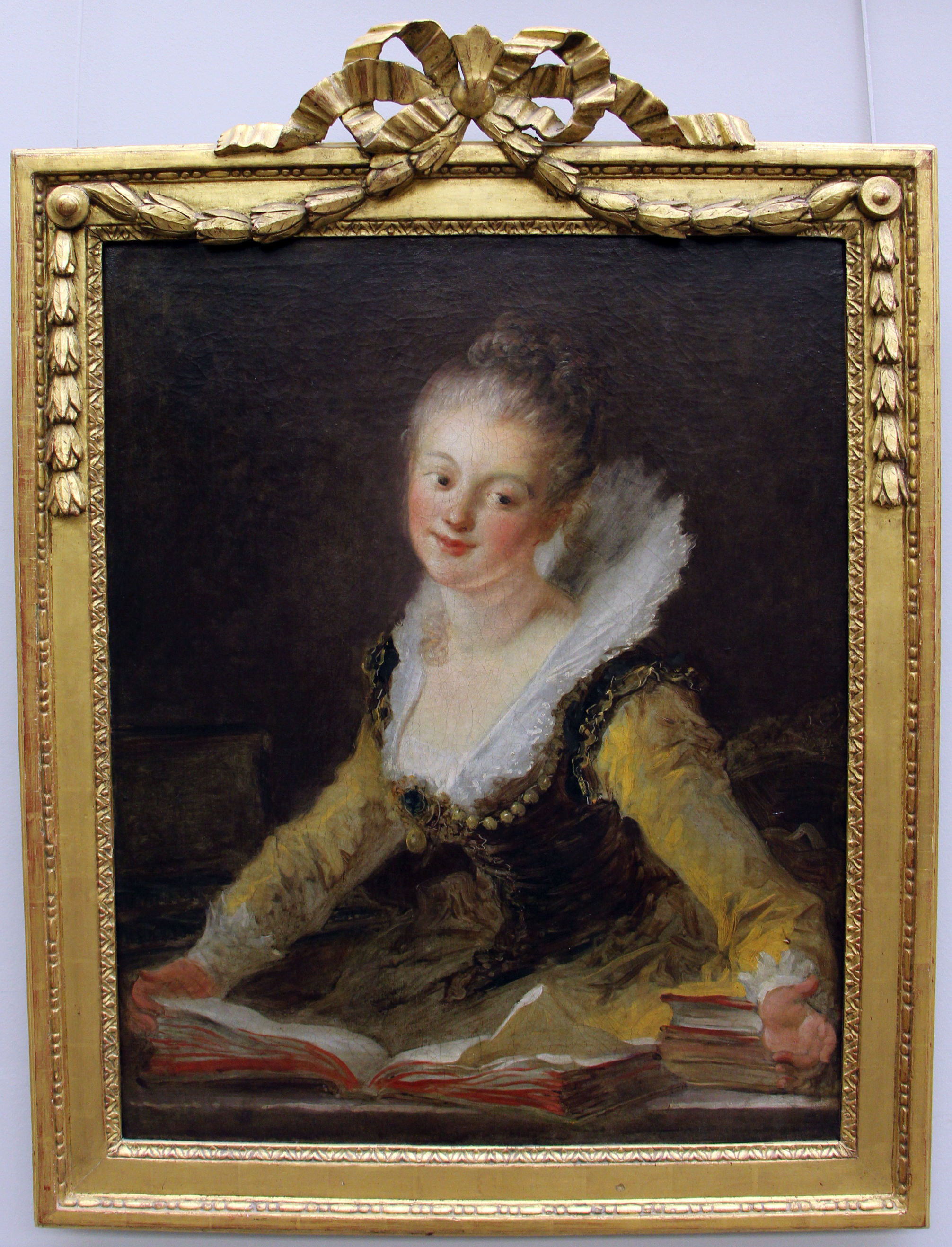 Paintings by Fragonard in the Louvre